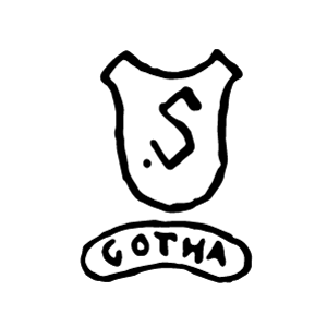 used amongst others 1883–1934